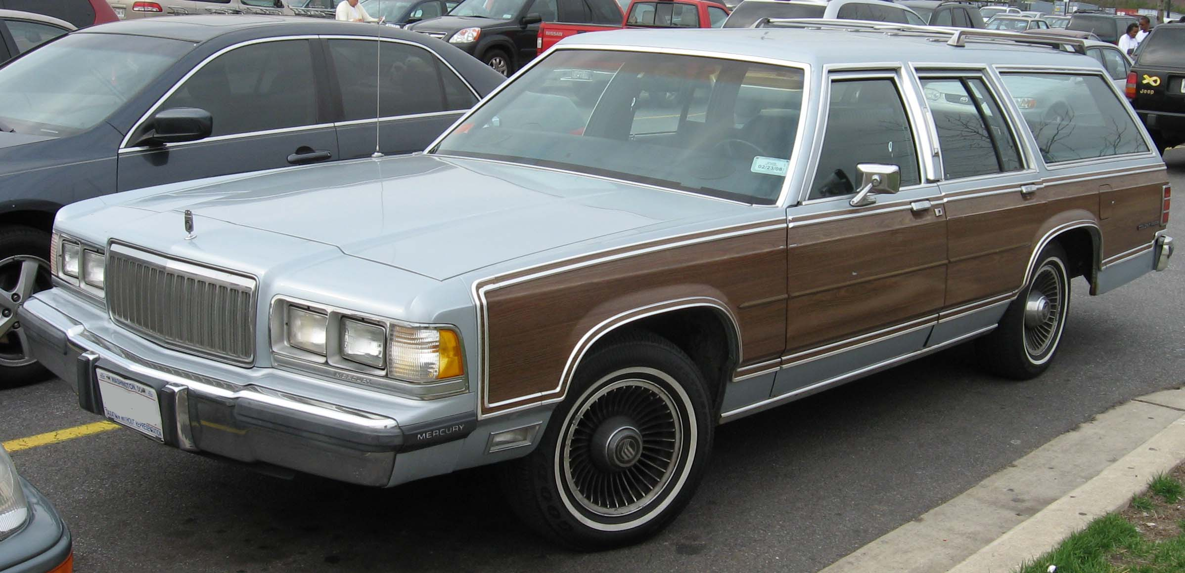 1988-1991 Mercury Grand Marquis Colony Park photographed in USA.